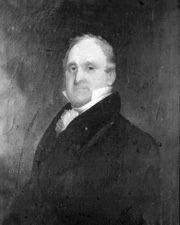 Portrait painting entitled "The Honorable James Lanman (1769), B.A. 1788, M.A. 1791"